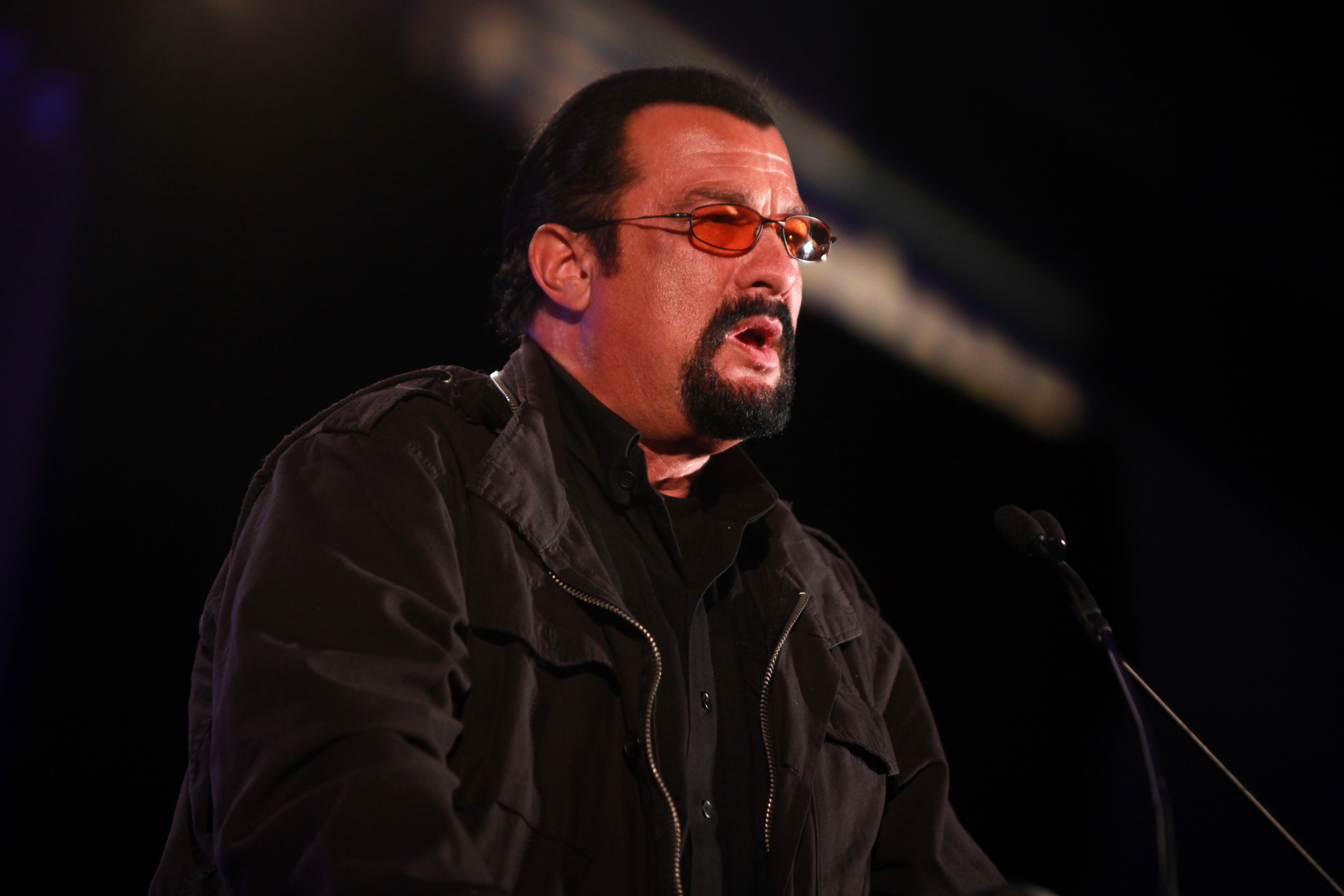 Steven Seagal speaking at the 2014 Western Conservative Conference at the Phoenix Convention Center in Phoenix, Arizona. Copyright © Western Center for Journalism/Gage Skidmore.